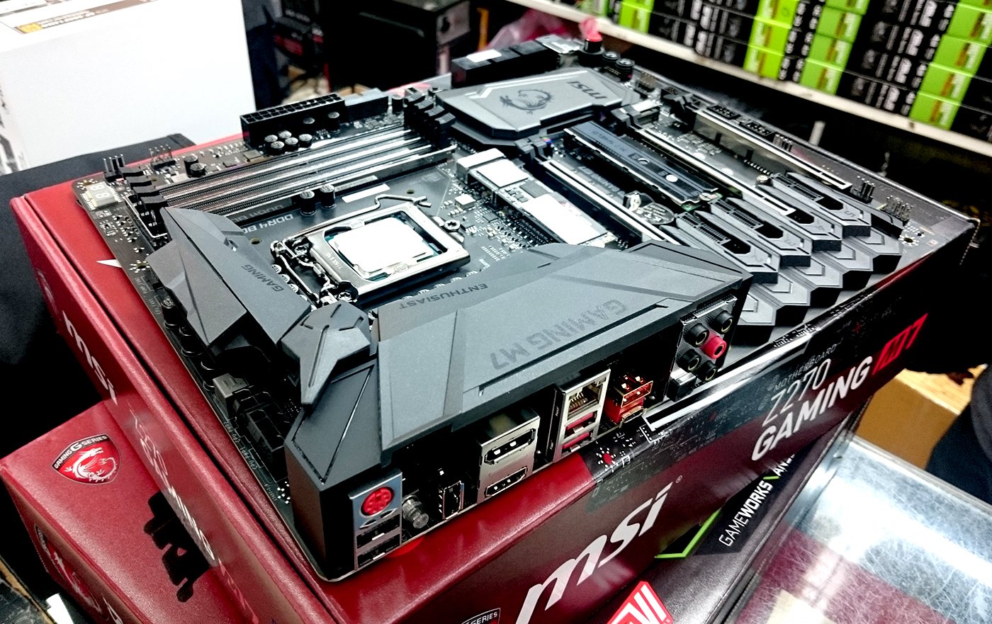 This is a photo of Micro-Star International's Z270 GAMING M7 motherboard.